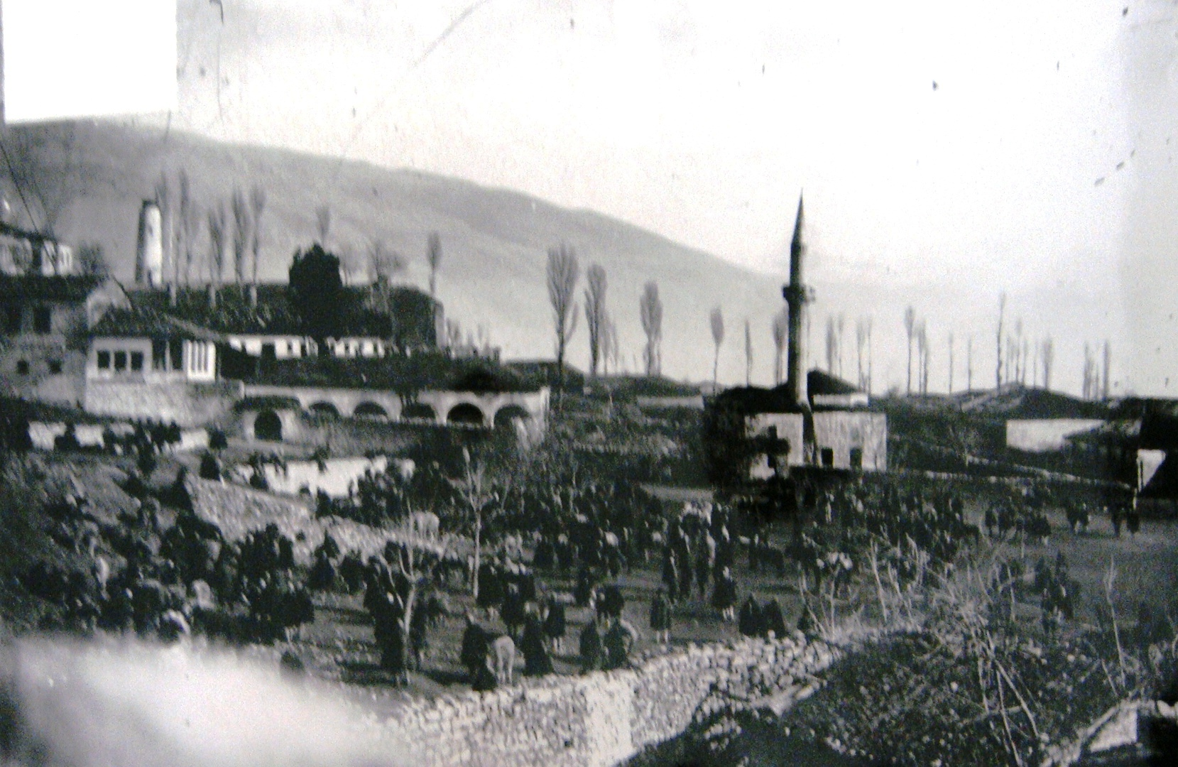 View of the livestock market (At-market) in Ioannina. 1898 This media file is produced by Wikipedian in Residence in Category:Wikipedian in Residence at DARM in 2016.